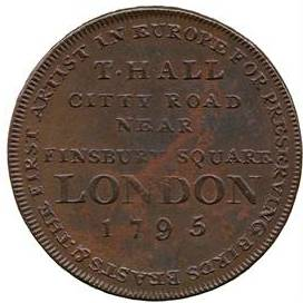 1797 coin celebrating Amelia Lewsham or Newsham (born about 1748, d. in or after 1798), albino white negress